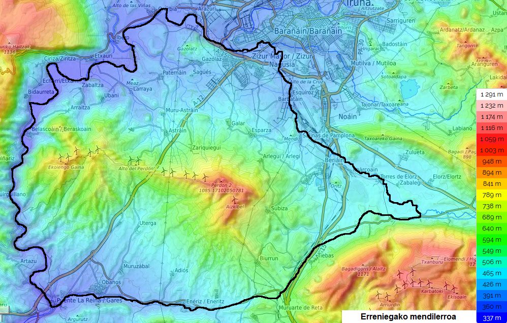 Topographic map showing the Erreniega Range.